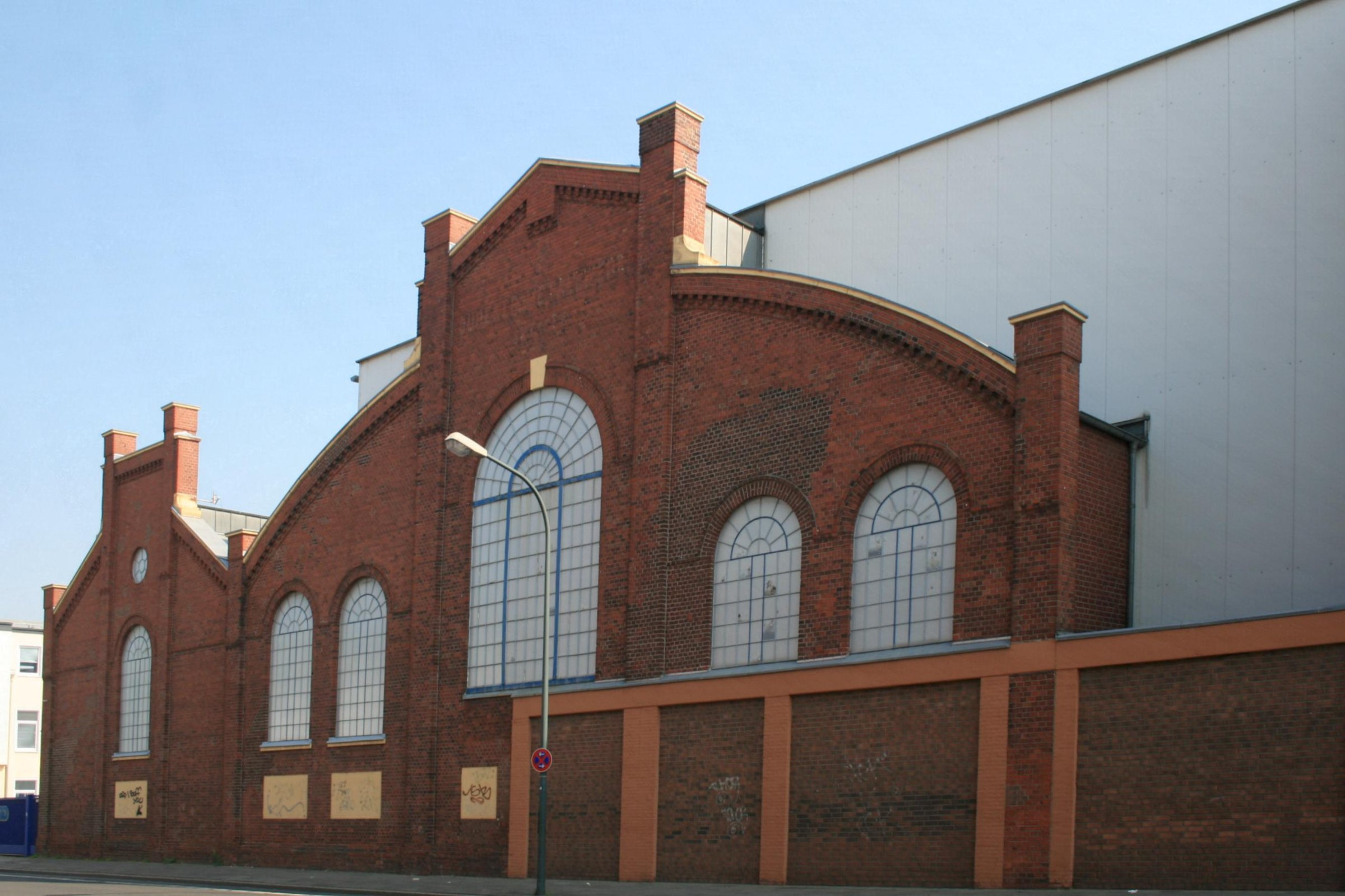 Cultural heritage monument No. 1/112 in Düren